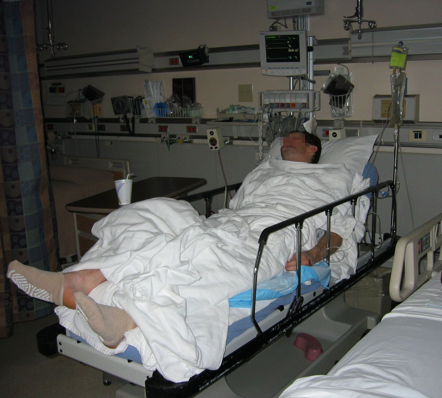 Anesthesized patient: postoperative recovery.